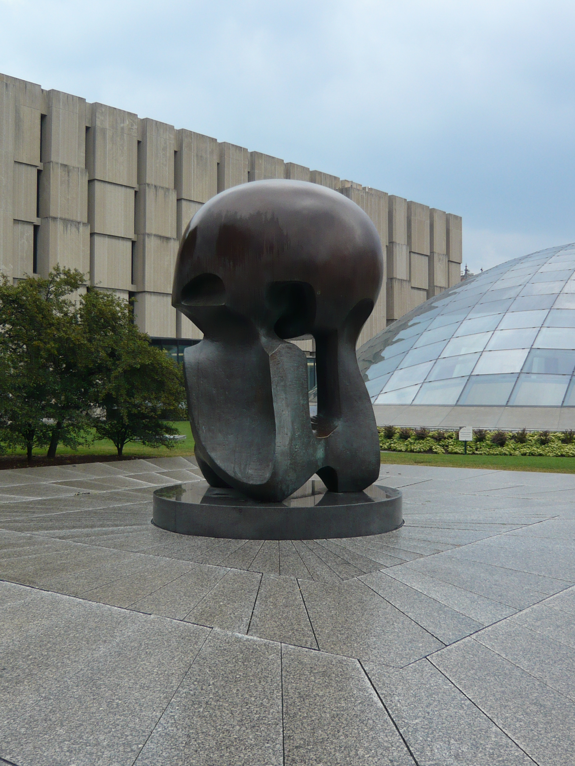 «Nuclear Energy», a sculpture by Henry Moore commemorates the first controlled nuclear chain reaction.